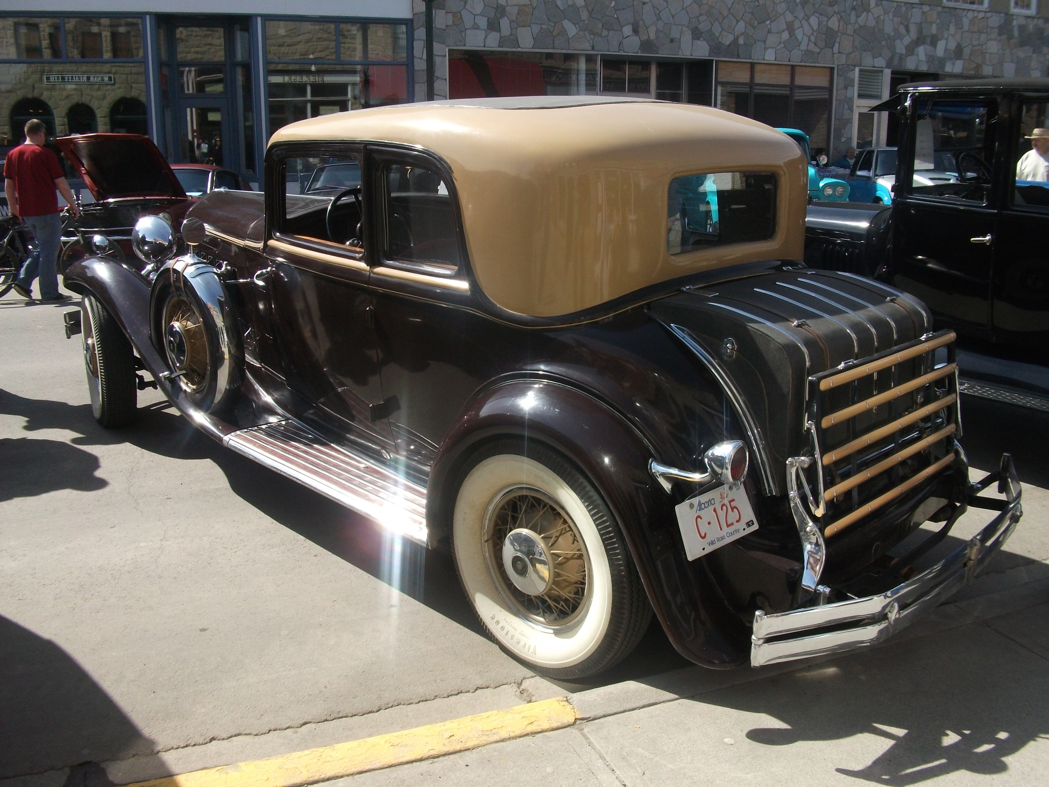 1931 Reo Royale Victoria Eight